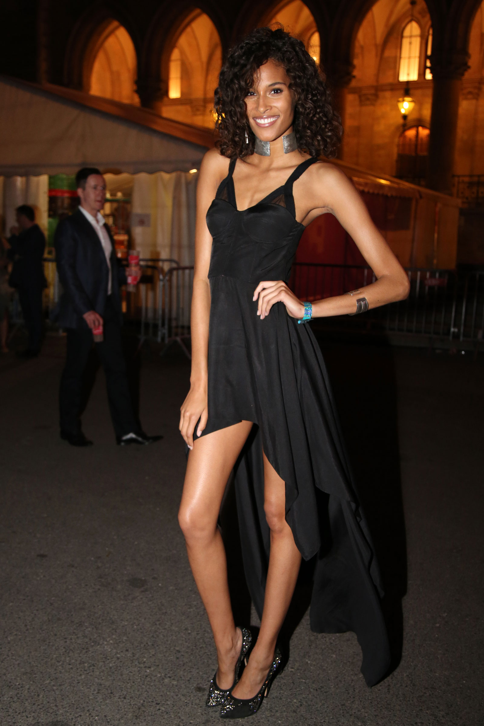 Cindy Bruma poses for a picture taken by Franz Johann Morgenbesser